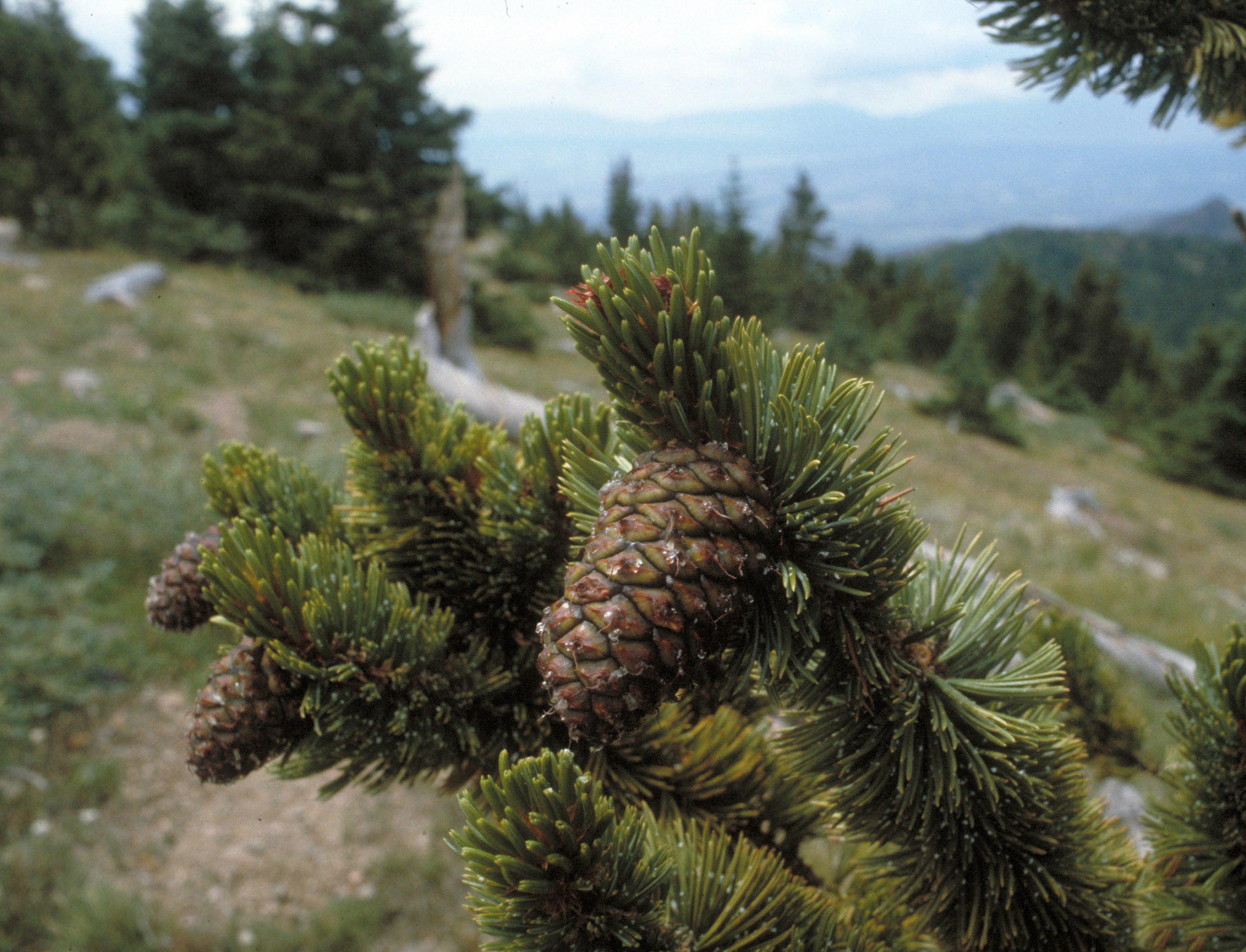 Pinus aristata foliage and cones.